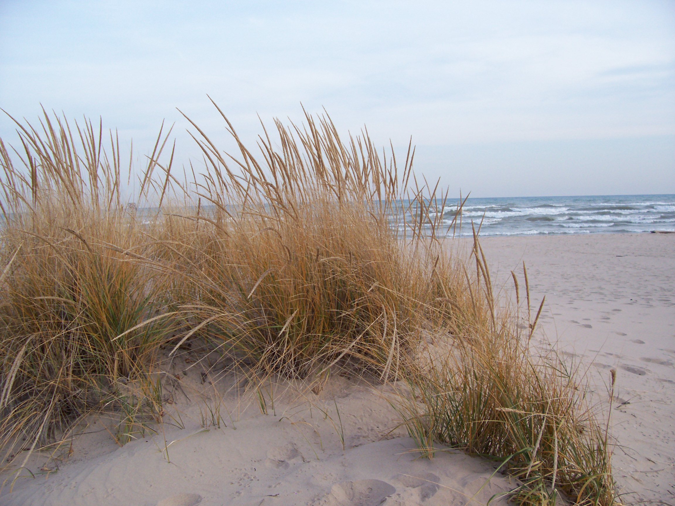 Looking east at American Marram Grass (Ammophila breviligulata) at Kohler-Andrae State Park just south of Sheboygan, Wisconsin with Lake Michigan in the background.